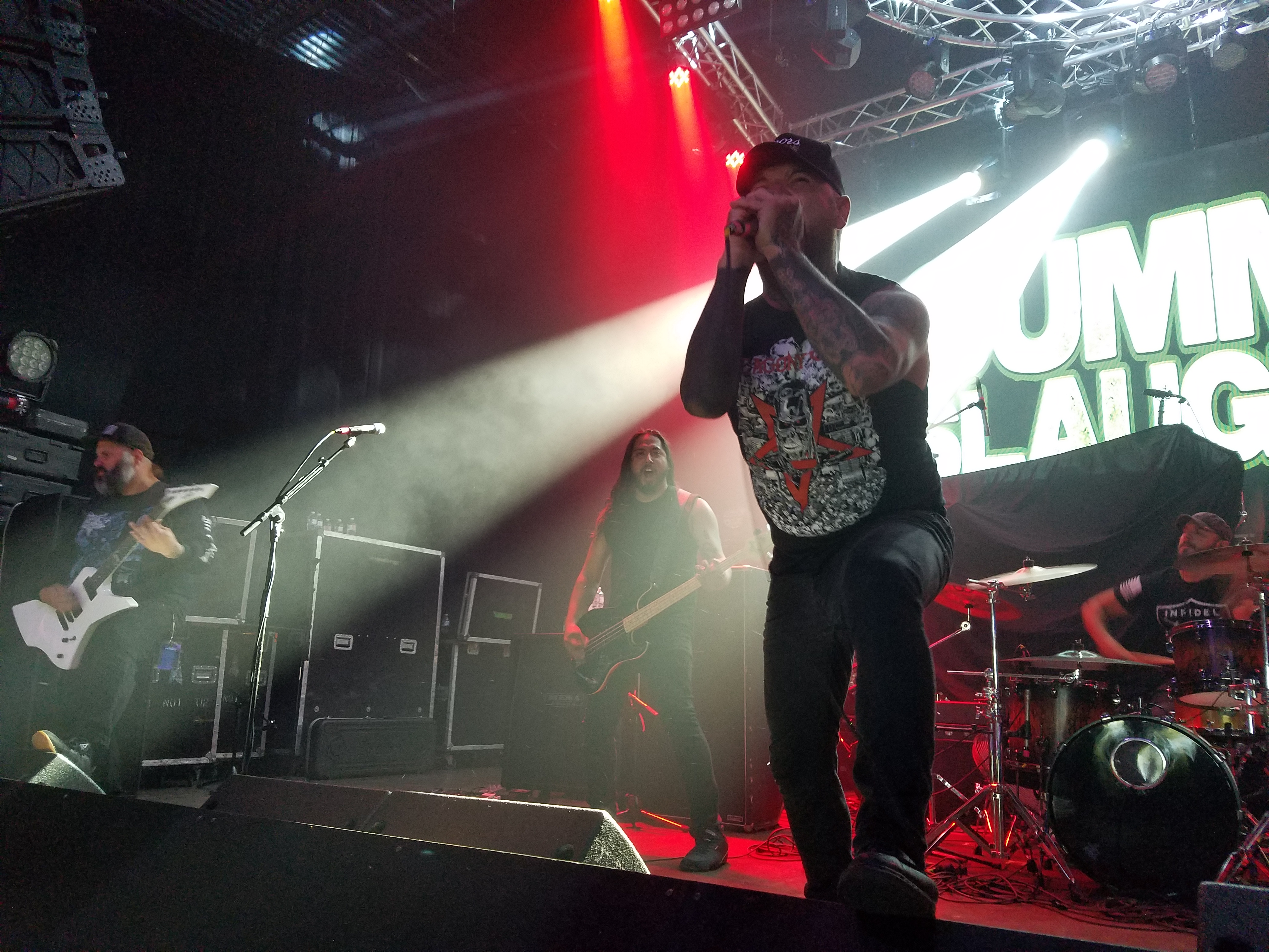 The Agony Scene performing in 2018